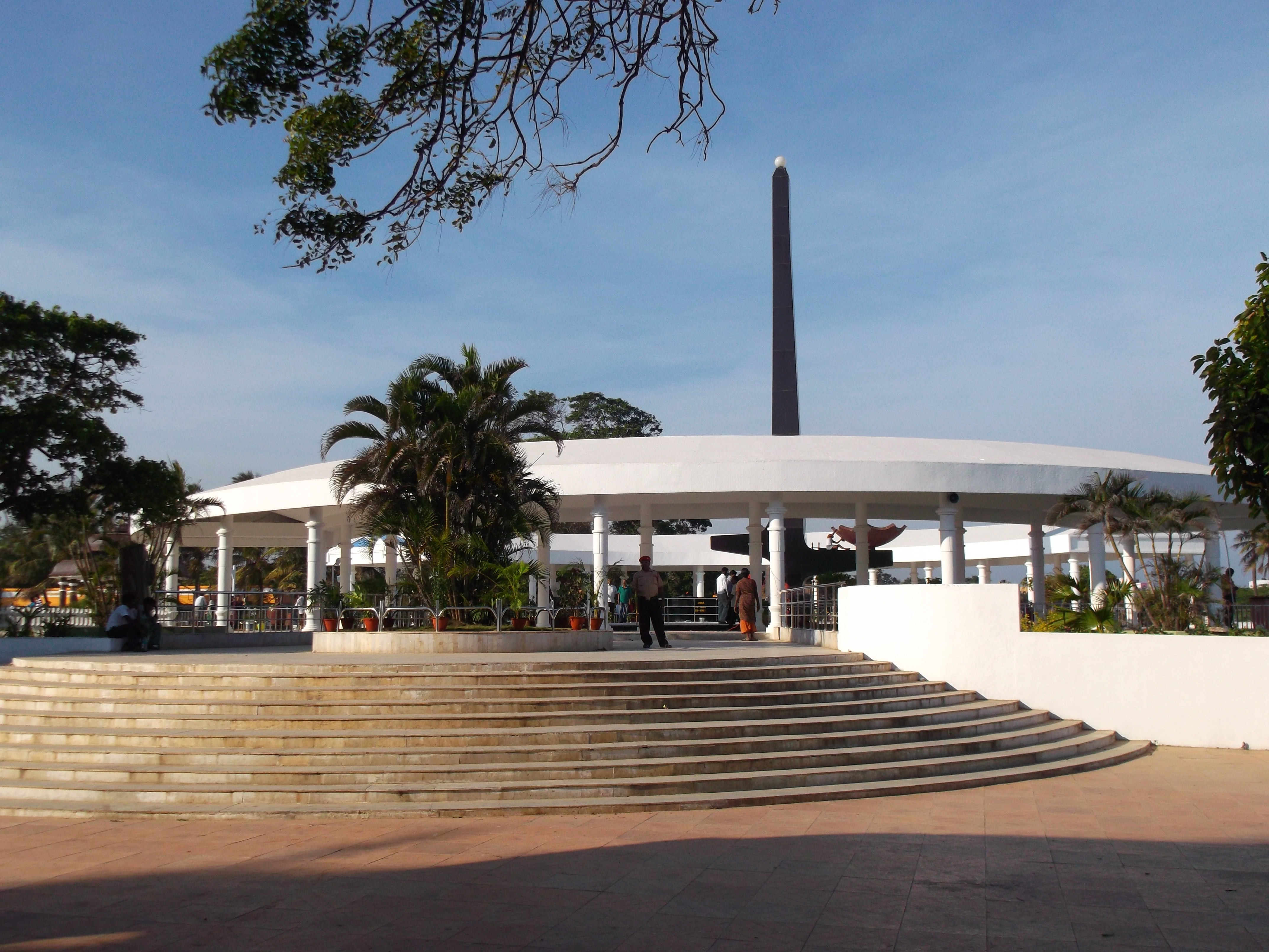 Chennai Anna Memorial, northern view, taken on 2-Feb-2013 at around 4.00 pm